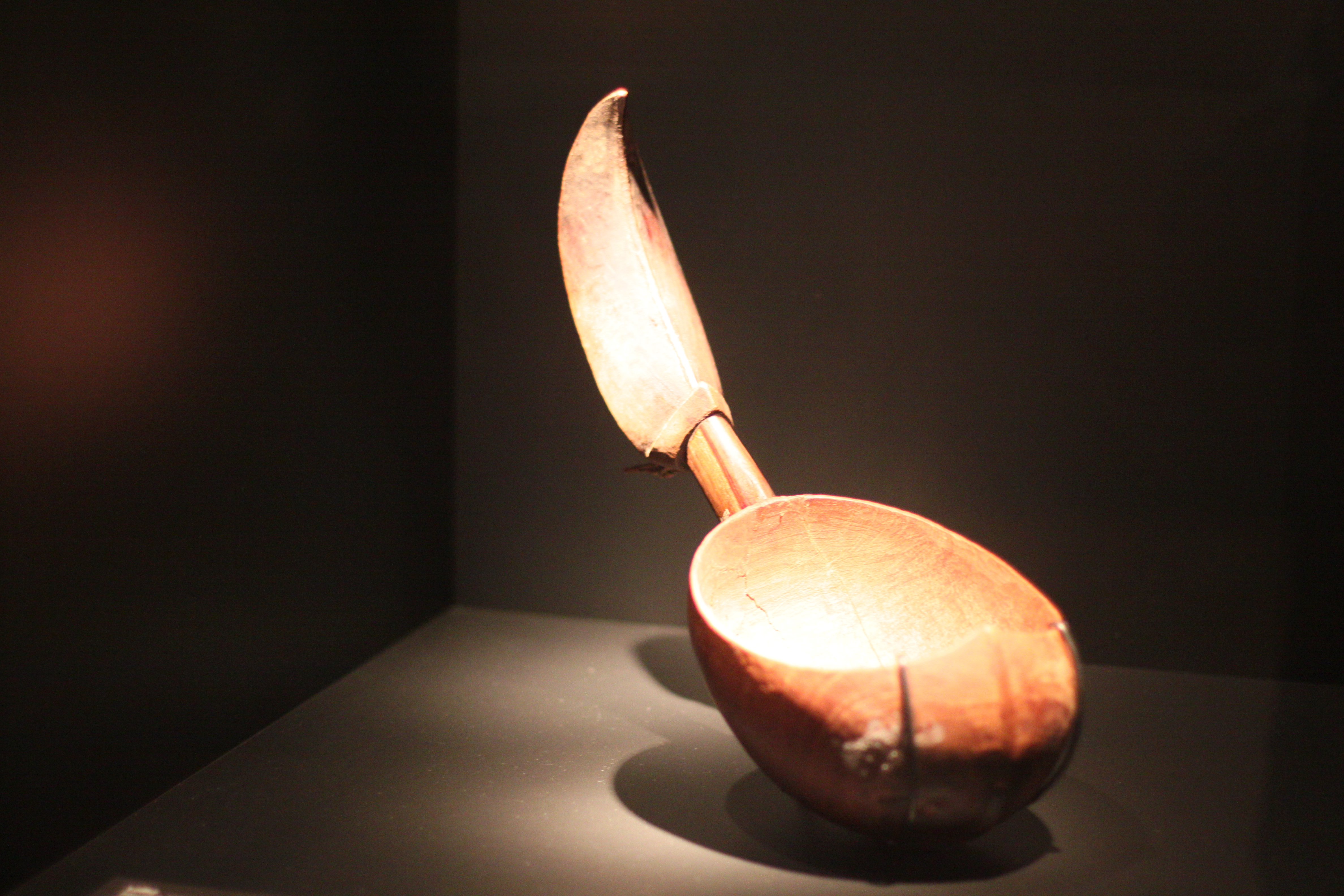 Wooden spoon, Namibia, Herero people, 19th or early 20th century; African department, Ethnological Museum, Berlin, Germany, Inv. No. III D 2227 (Lübbert collection, acquired in 1903)